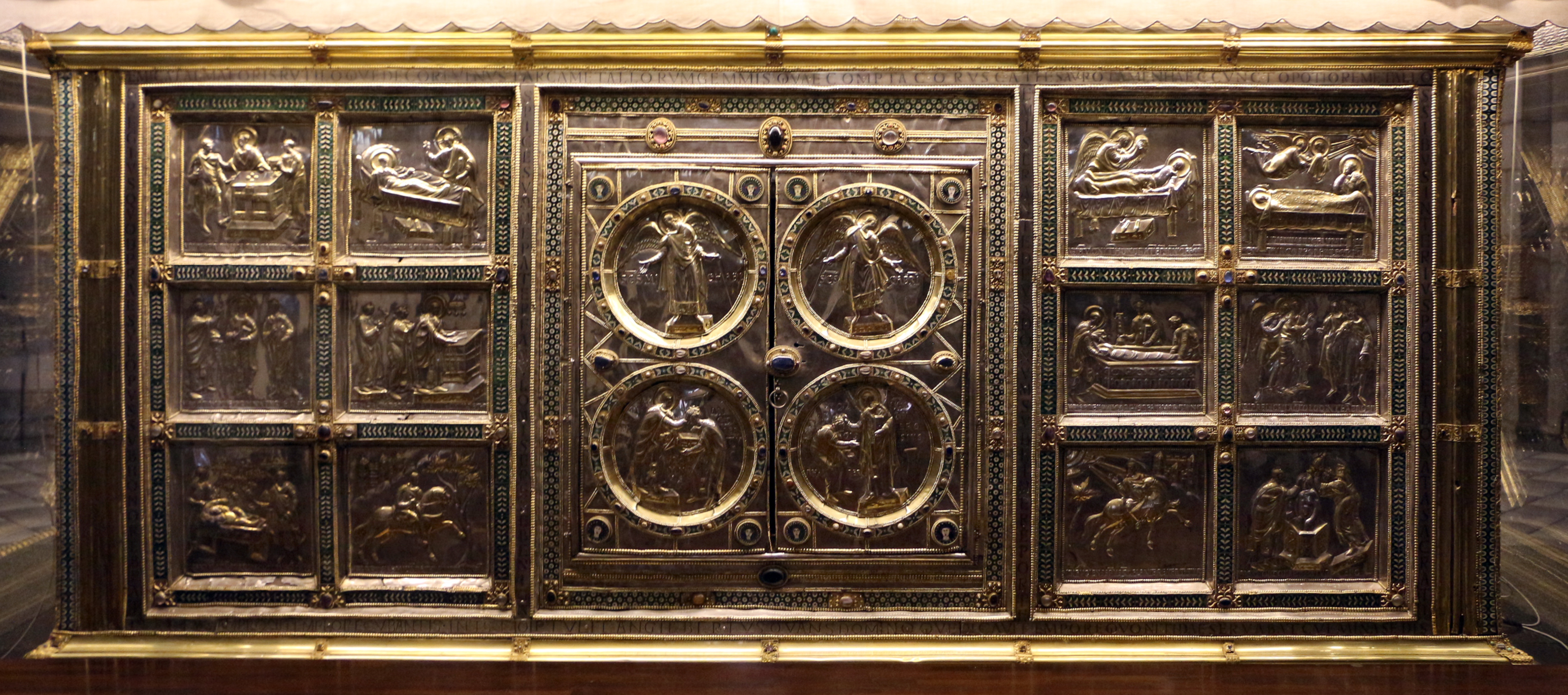 Sant'Ambrogio Altar